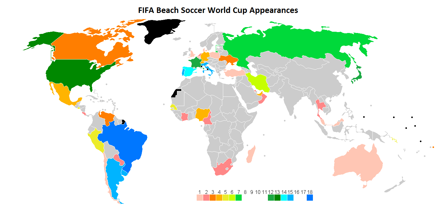 Map of the world nations' appearance in the FIFA Beach Soccer World Cup. Newly updated.